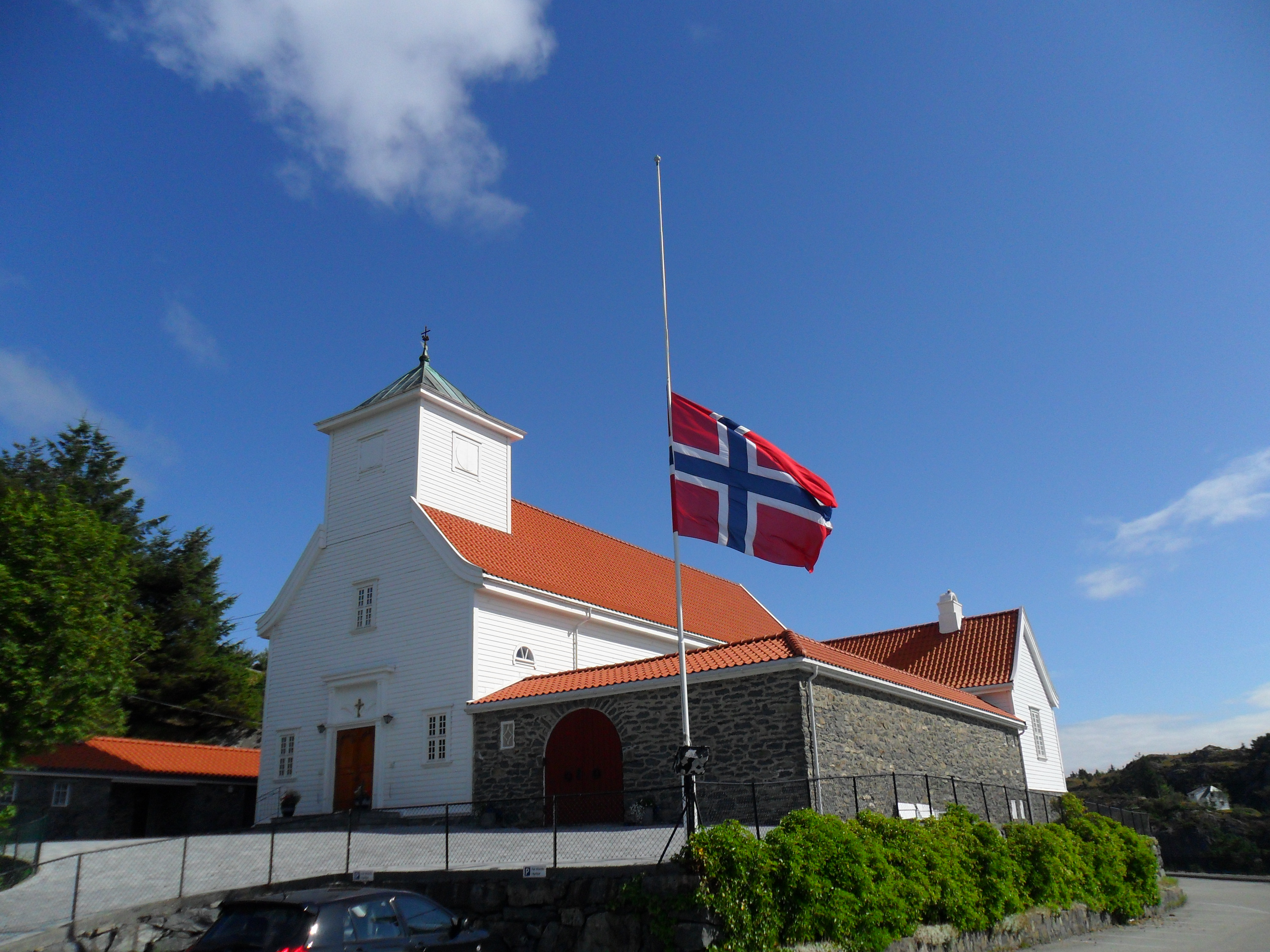 Blomvåg church, Øygarden Hordland, Norway. Flag at half mast due to the terror in Oslo 22/7-2011.